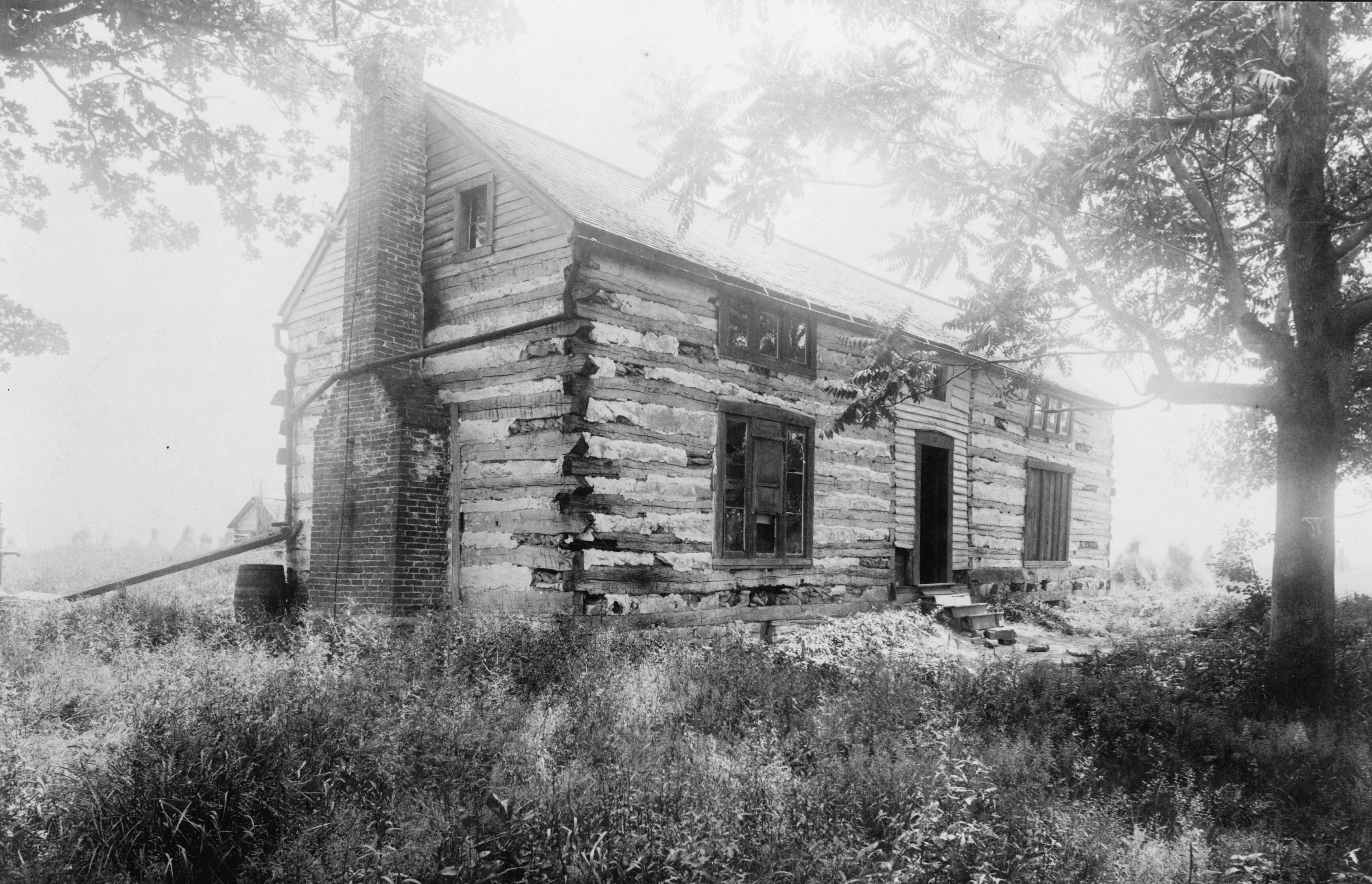 "Hardscrabble" home of Ulysses S. Grant in St. Louis County, Missouri, United States.